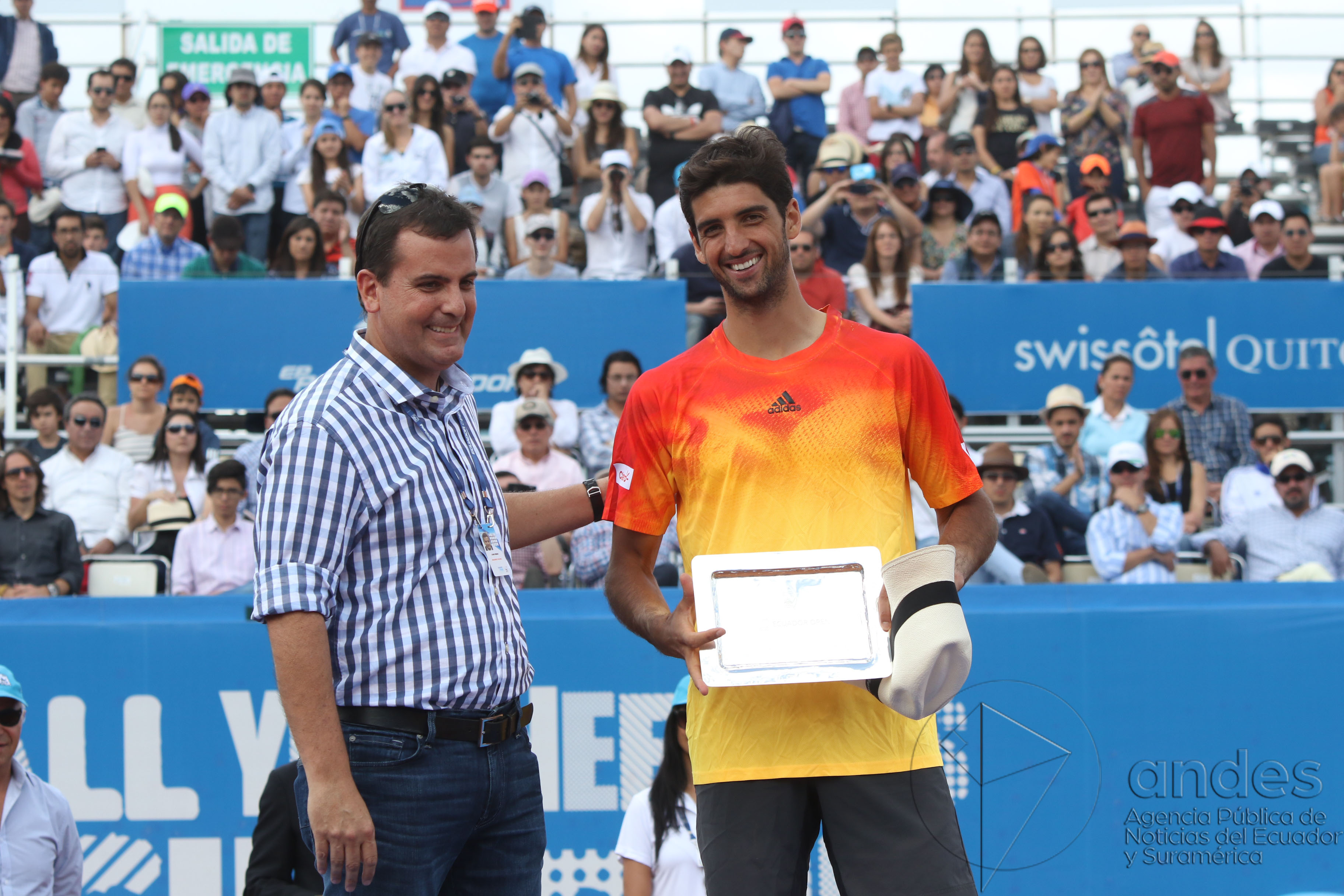 2016 Ecuador Open Quito Final: Víctor Estrella Burgos vs. Thomaz Bellucci.